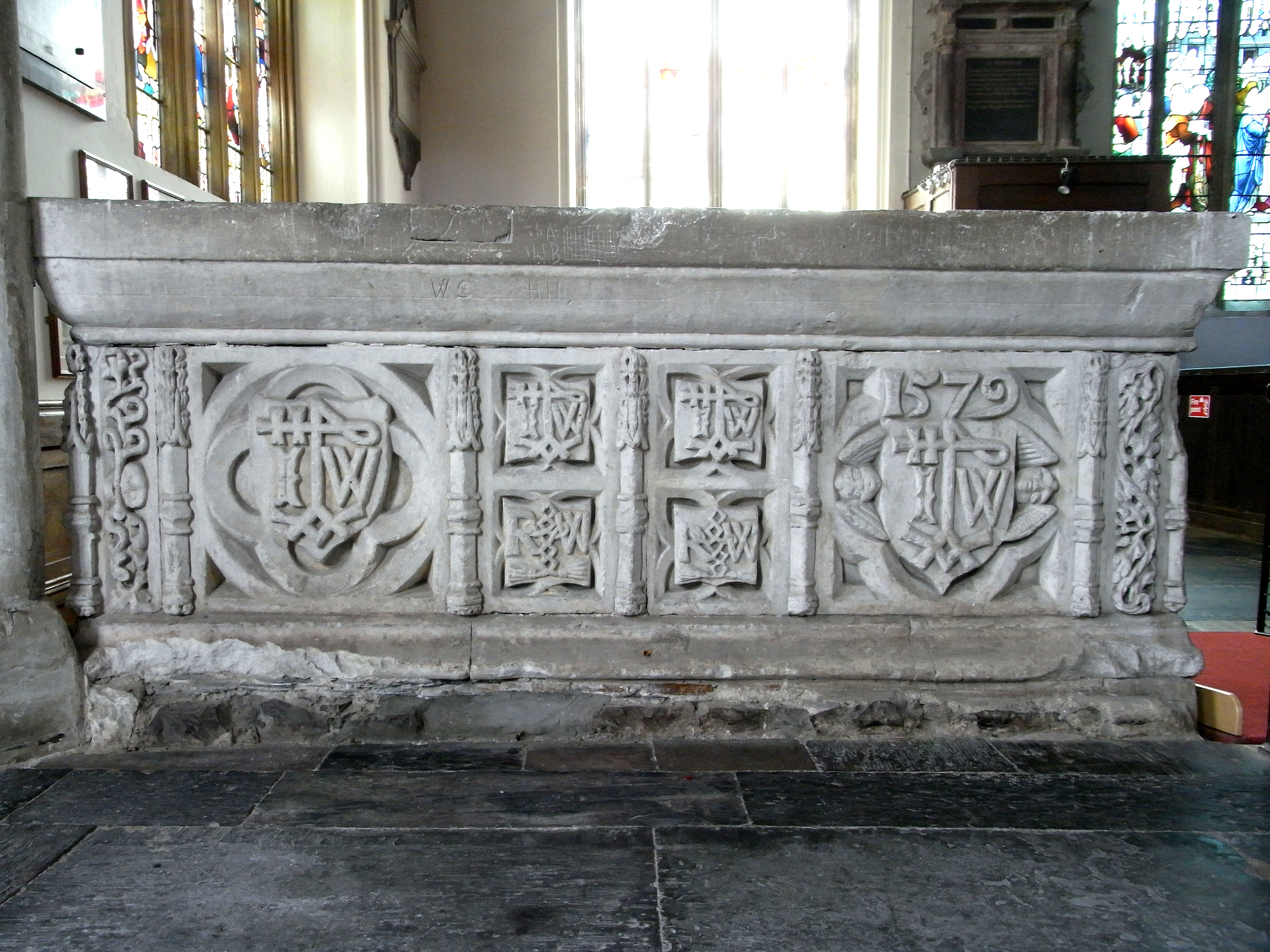 Chest tomb of John Waldron (d.1579), merchant, St Peter's Church, Tiverton, Devon. Profusely decorated with relief sculpture showing his merchant's mark